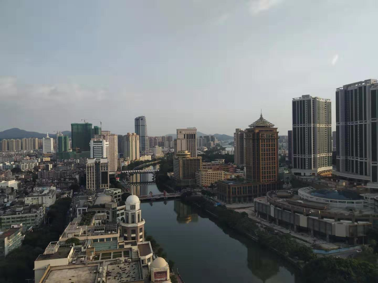 View from Zhongshan Sky Wheel (幻彩摩天轮).